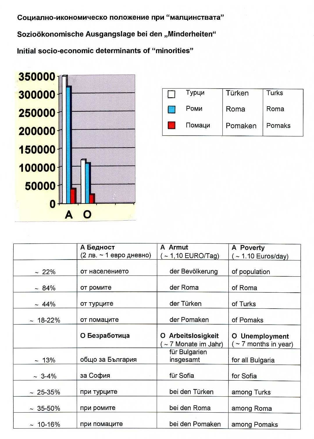 Unemployment rate and poverty rate(1.1 EUR a day) among ethnic groups in Bulgaria.